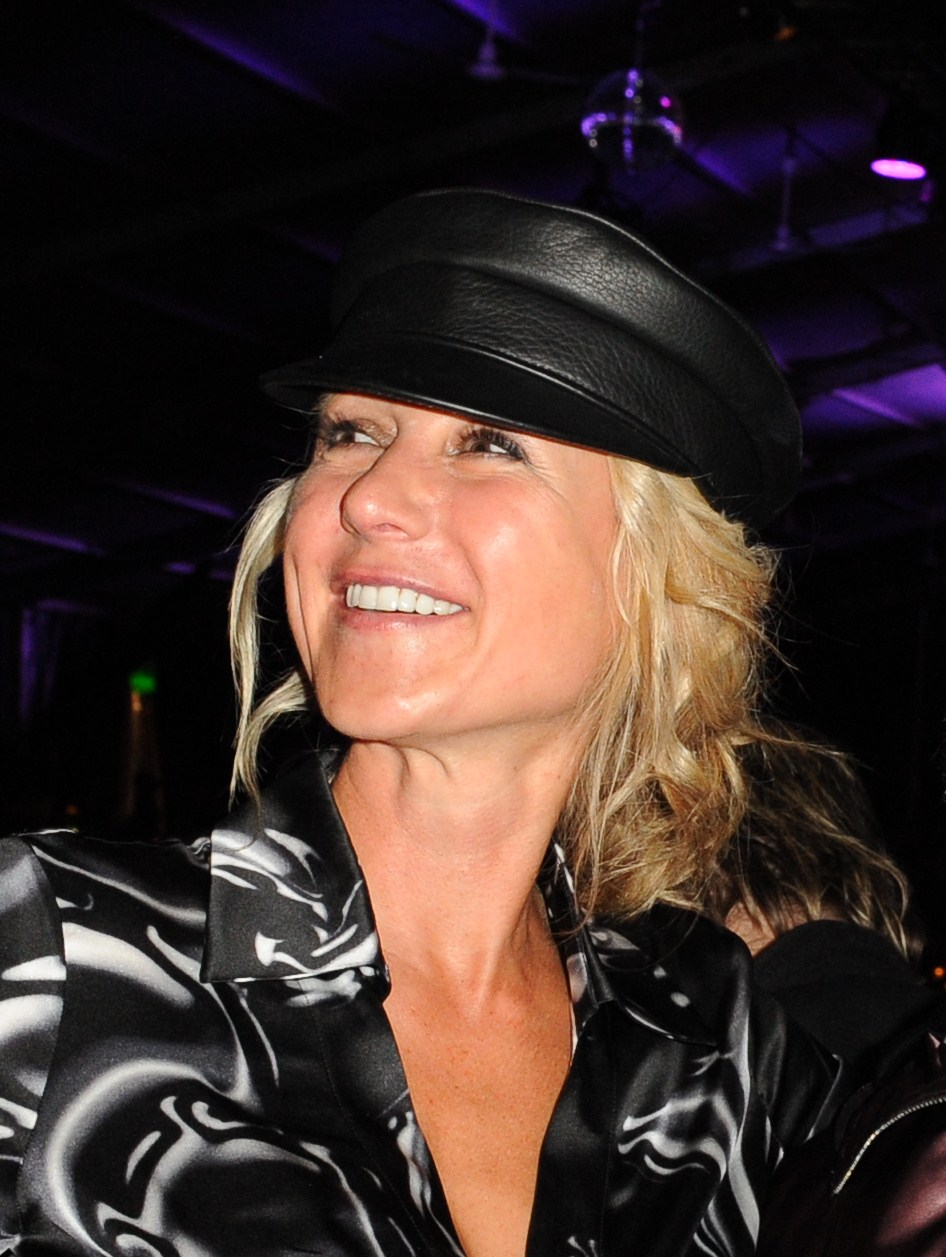 Personal photo of Belinda Stronach taken at Golf Rocks charity event, Toronto, Sept 2008